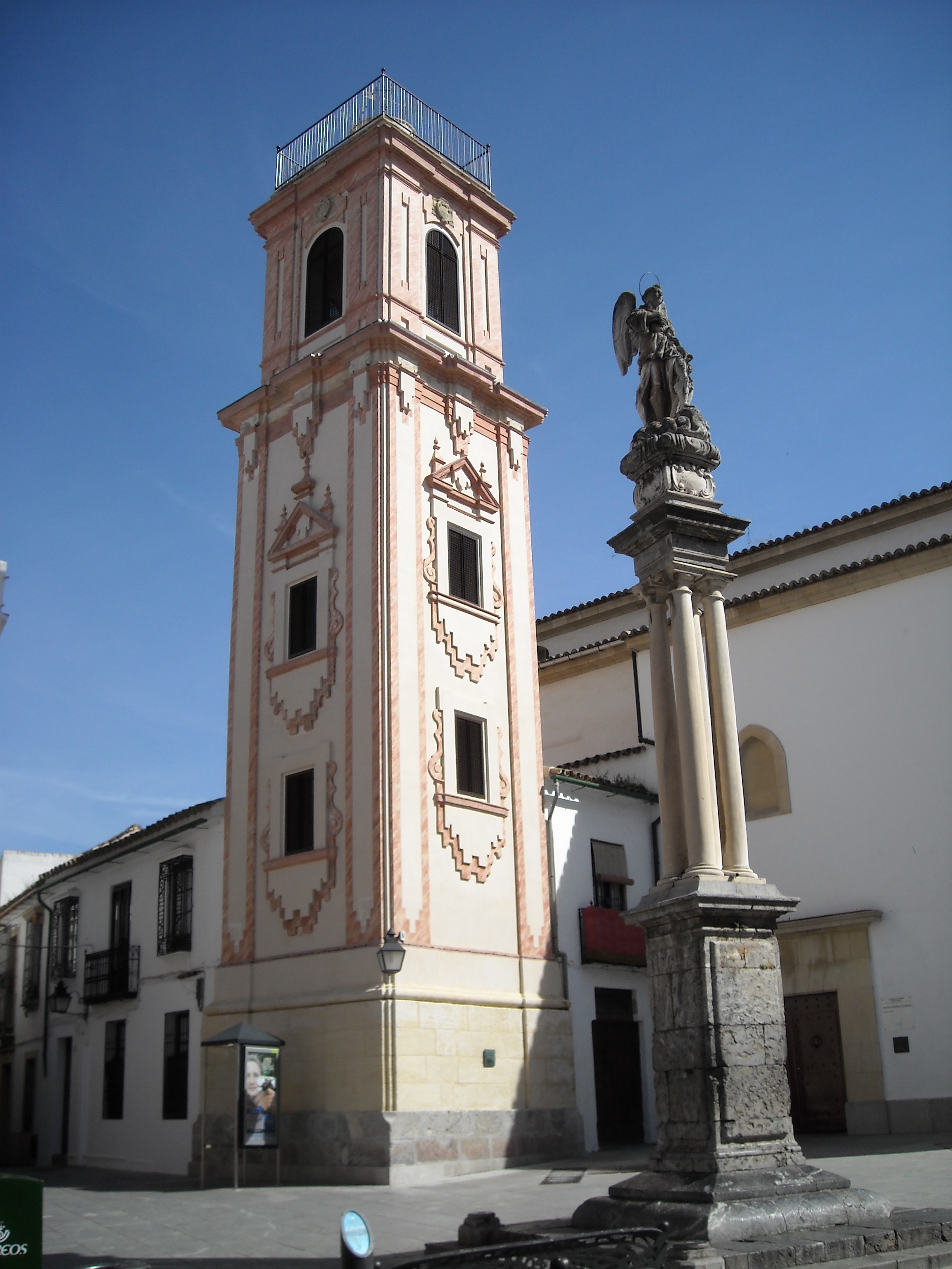 Plaza de la Compañia, Córdoba, Spain, with the Church tower of Santo Domingo de Silos and the Statue of St. Raphael